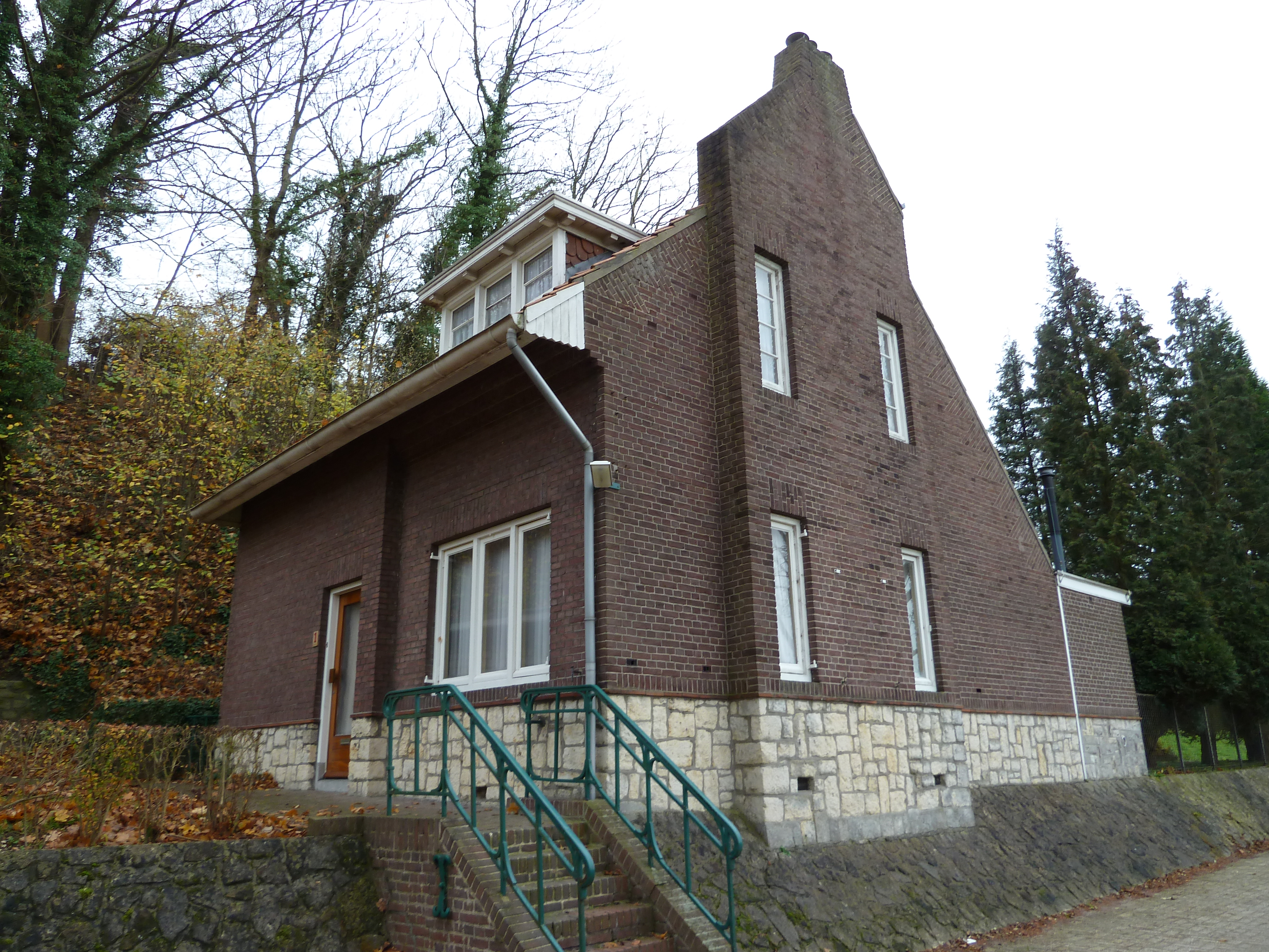 Home for worker on waterstation in Terveurt, Klimmen, Limburg, the Netherlands